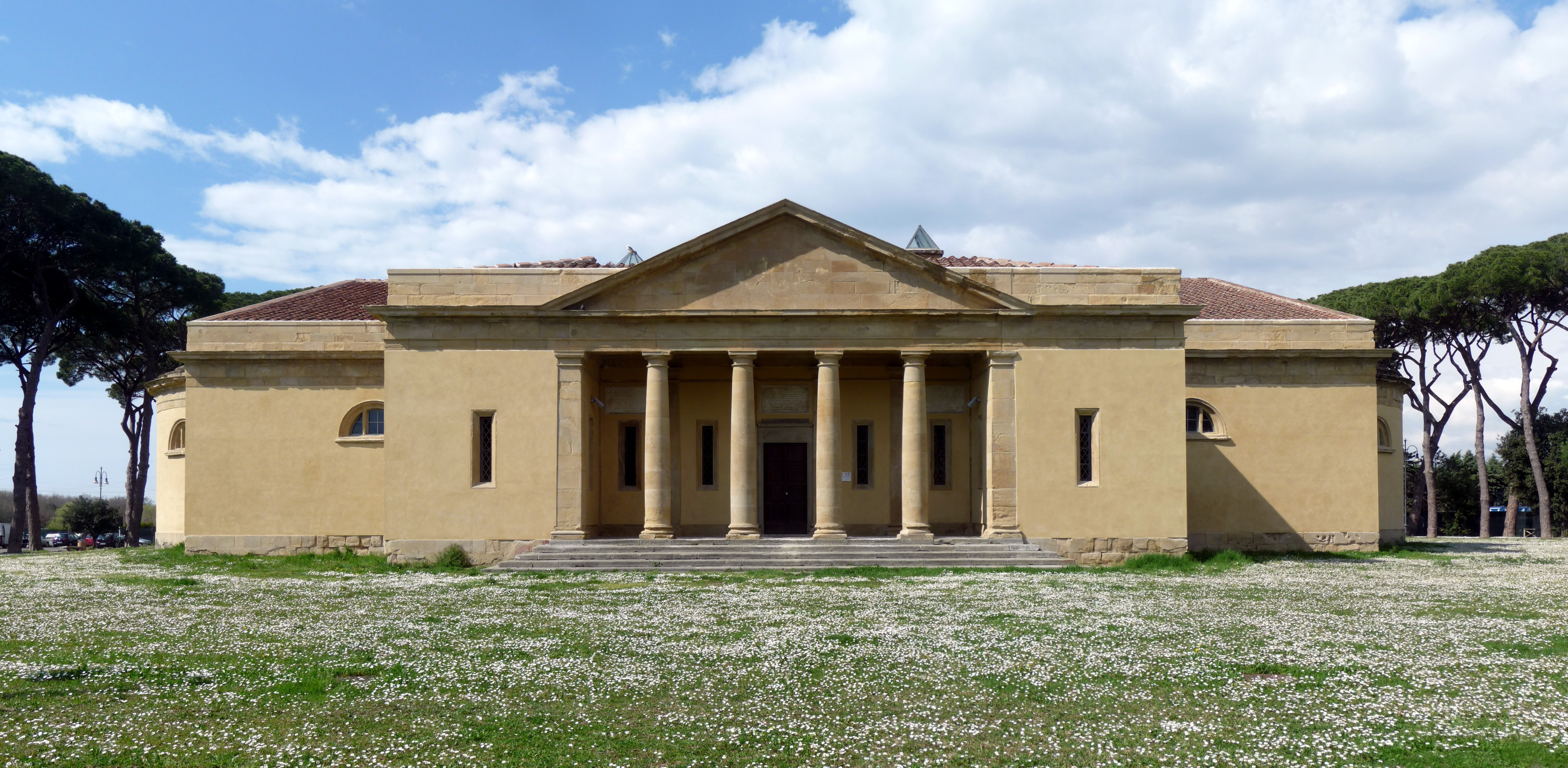 Cisternino di Pian di Rota, Livorno, Tuscany, Italy (Pasquale Poccianti 1774-1858)